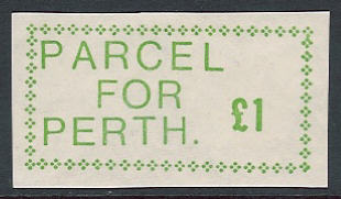 £1 stamp produced during the 1971 postal strike for a private postal strike in Perth, Scotland.